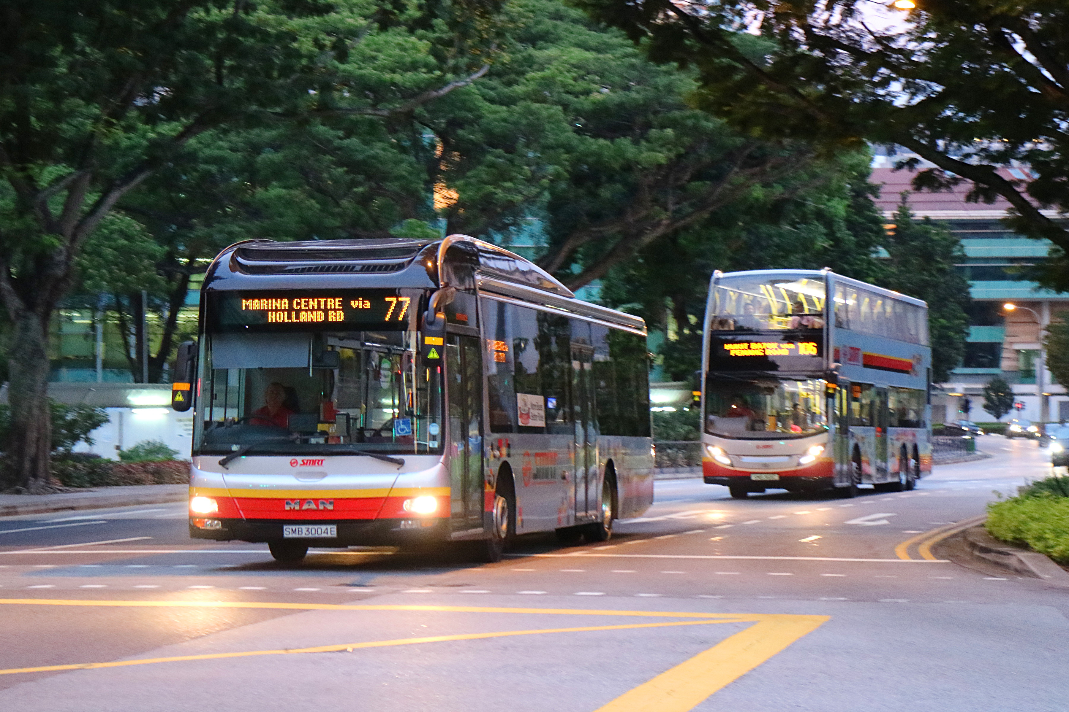 SMRT buses on services 77 and 106, both of which has been handed over to Tower Transit Singapore under the Bulim bus package.